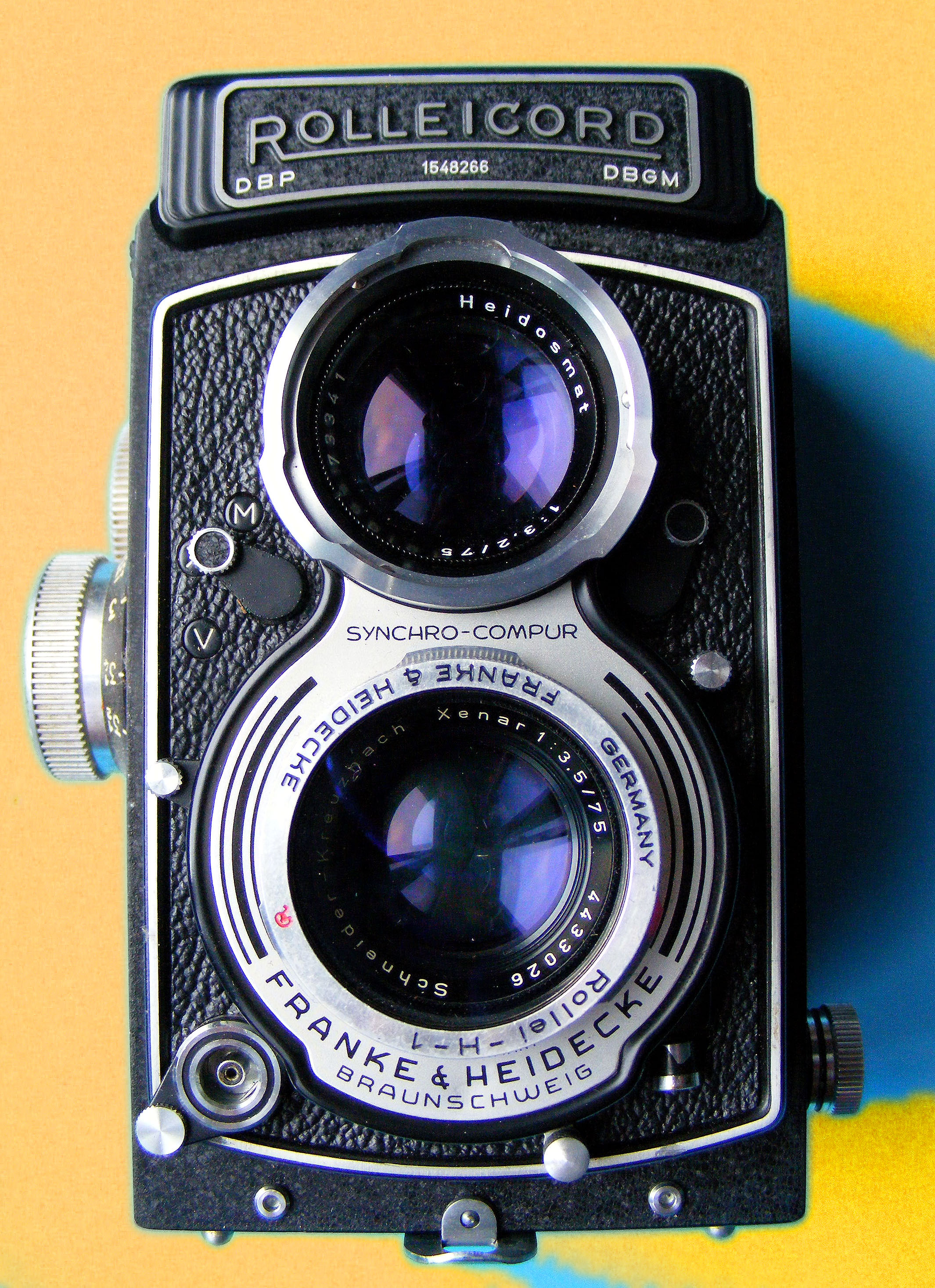 Rolleicord Camera, Format 2.25-[foto by P.B.Toman]